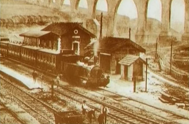 Photograph of the Campolide train station, on the Cintura Railway, in Portugal. This photograph was taken before the reconstruction works in the 1930s. This image was shown in the "O milagre das Termas" programme, made in 2005 as parte of the "Alma e a Gente" series by the Videofono company, for the RTP - Rádio Televisão Portuguesa.